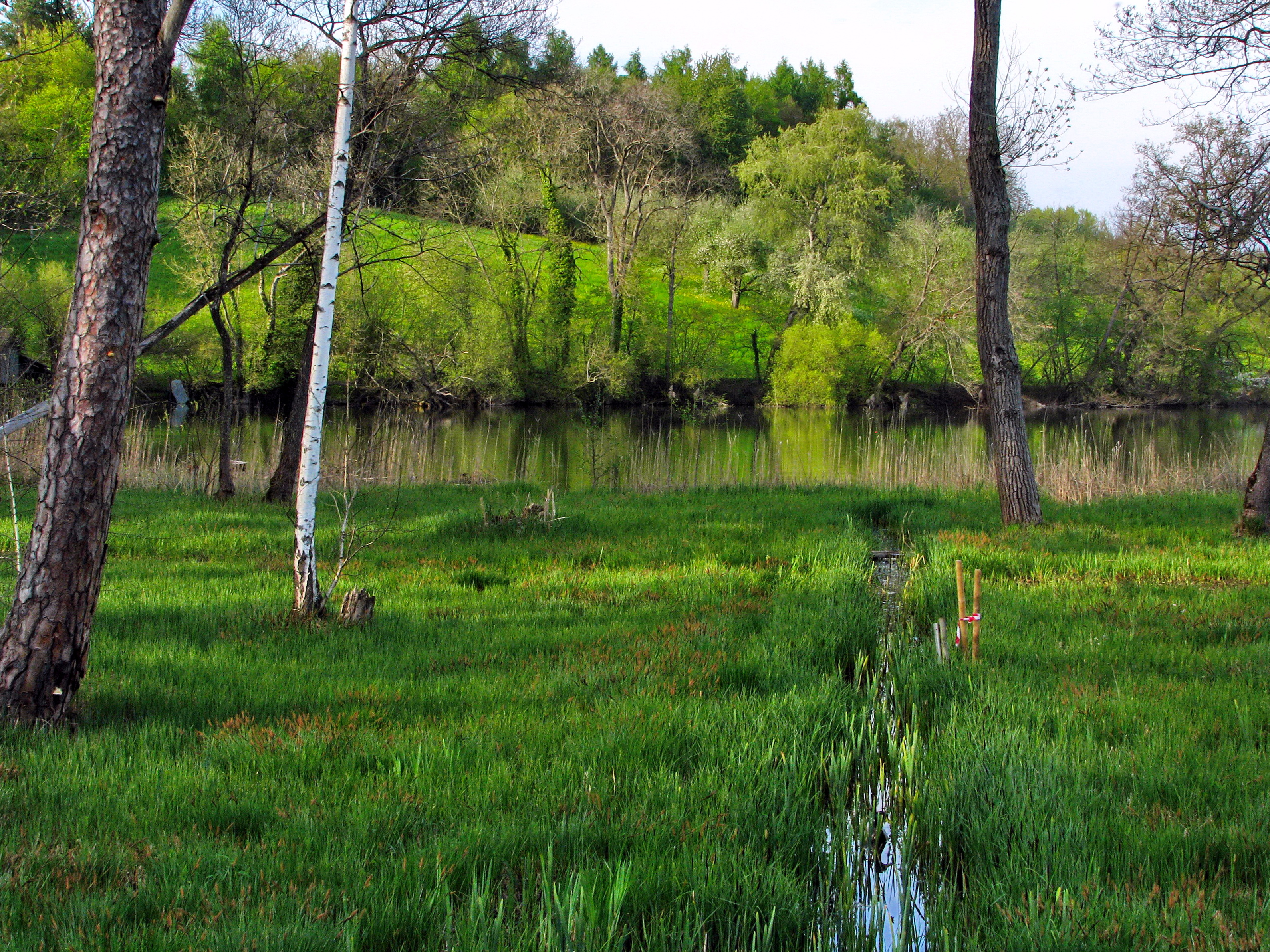 Swampy parts of the unterer (lower) Katzensee